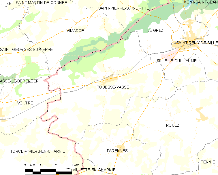 Map of French municipality